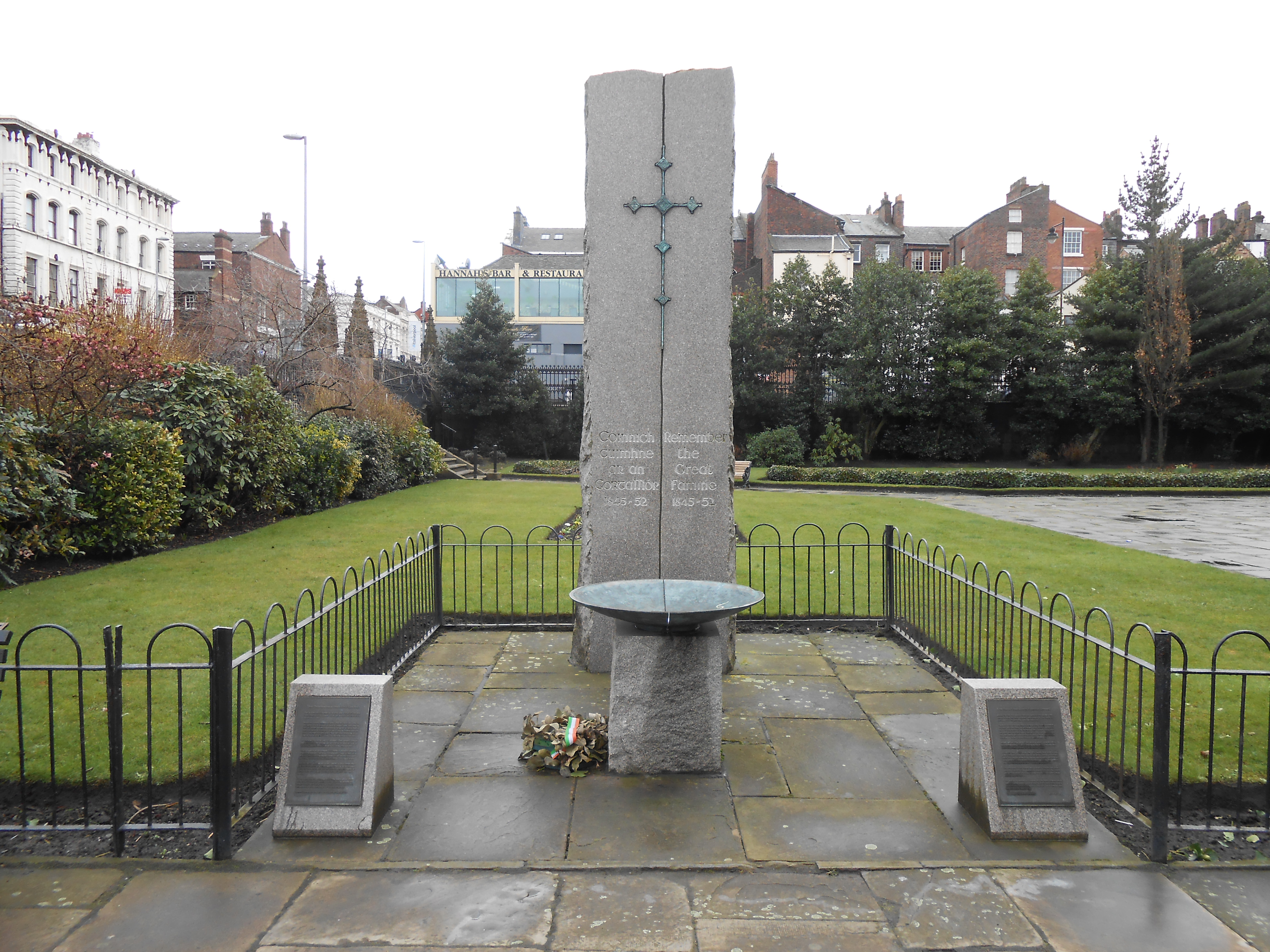 Memorial to the victims of the Irish Potato Famine "The Great Famine" in the grounds of St Lukes Church, Liverpool, England.